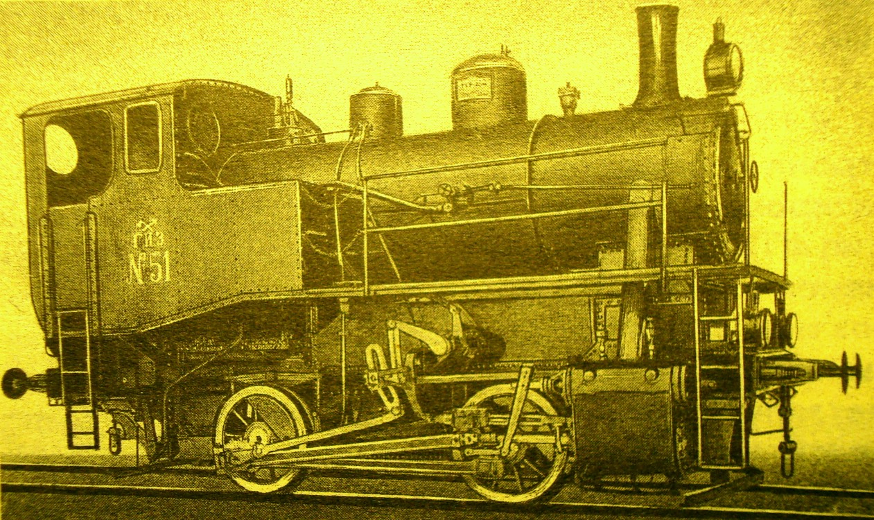 Soviet tank loc type 155 by Kolomna Works